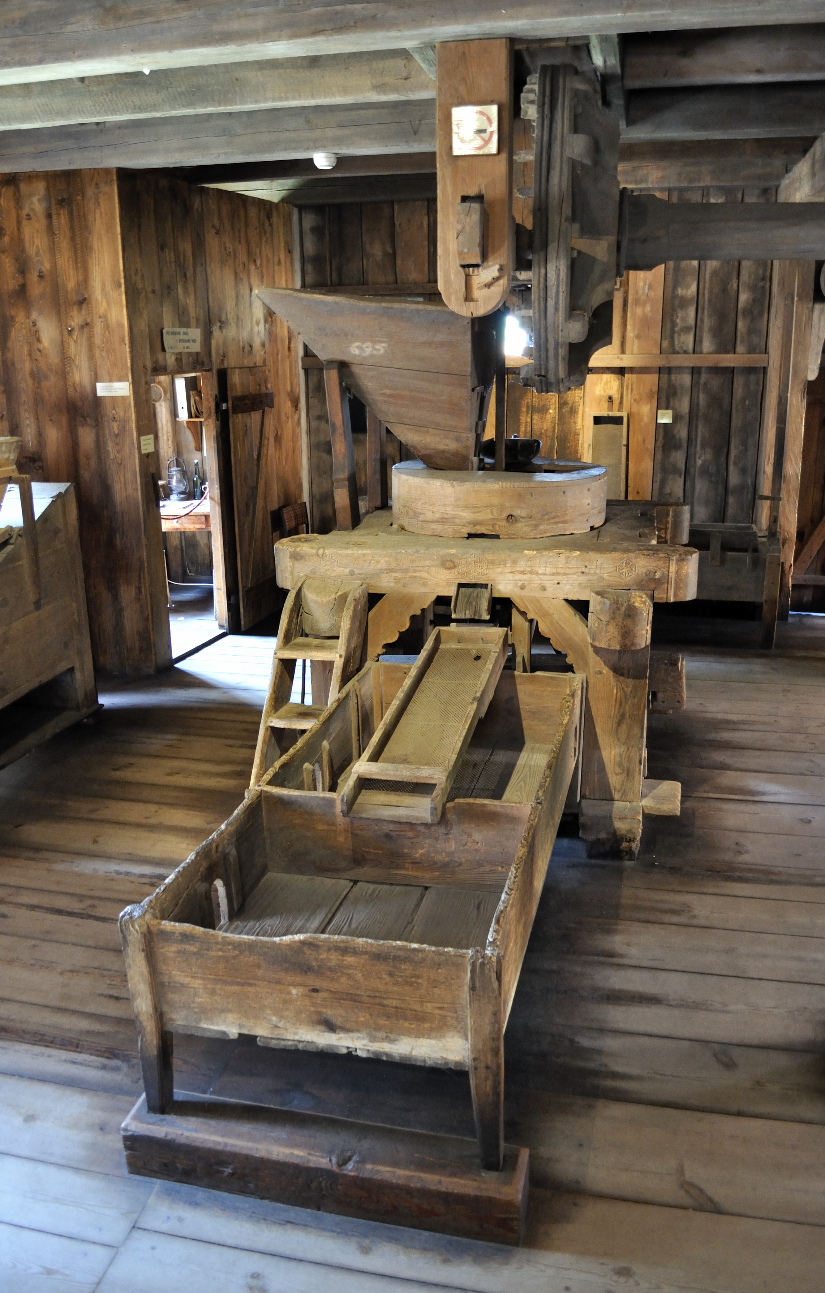 Picture taken in Malborg after Wikimania 2010 conference. Mill.